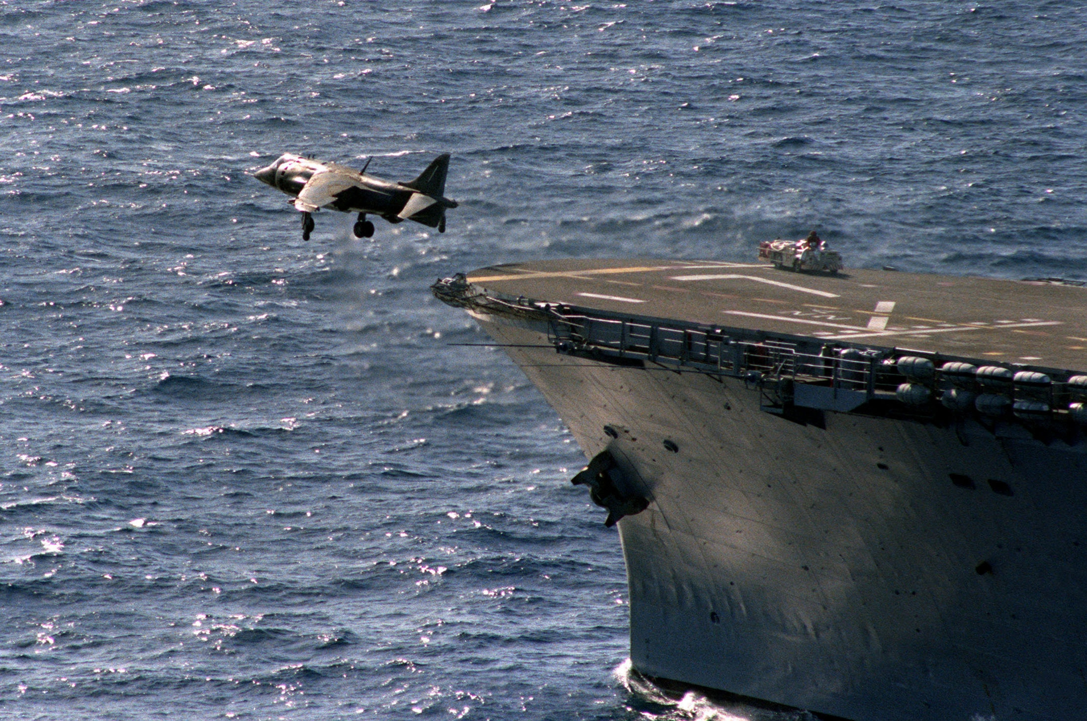 A U.S. Marine Corps Hawker Siddeley AV-8C Harrier from Marine Attack Squadron VMA-513 Flying Nightmares takes off from the bow of the amphibious assault ship USS Gudadalcanal (LPH-7) during exercise "Ahuas Tara II", taking place off the coast of Honduras. This was the first time the Guadalcanal had Harriers embarked aboard for an extended exercise.